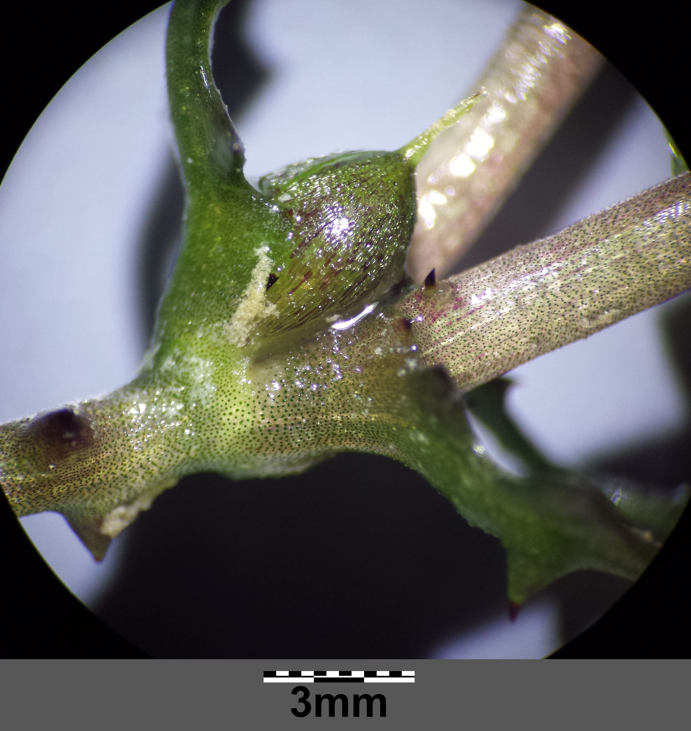 Infructescence Taxonym: Najas marina ss Fischer et al. EfÖLS 2008 ISBN 978-3-85474-187-9 Location: Alte Donau, Vienna-Floridsdorf - ca. 160 m a.s.l. Habitat: oxbow lake